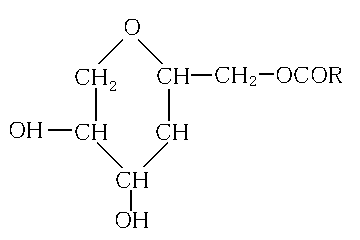 Sorbitan_MonoEster (Chemical formula)